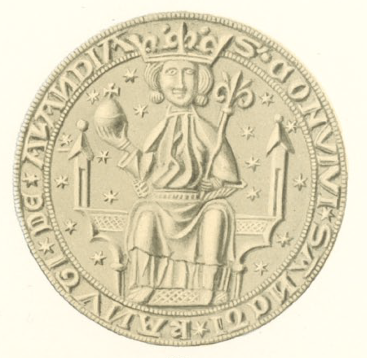 The medieval Seal of St. Knut's Guild from Åland, Finland. The picture is from Reinhold Hausen's book "Finlands medeltidssigill" (1900). The text reads "S(igillum) CONVIVI SANCTI CANUTI DE ALANDIA."